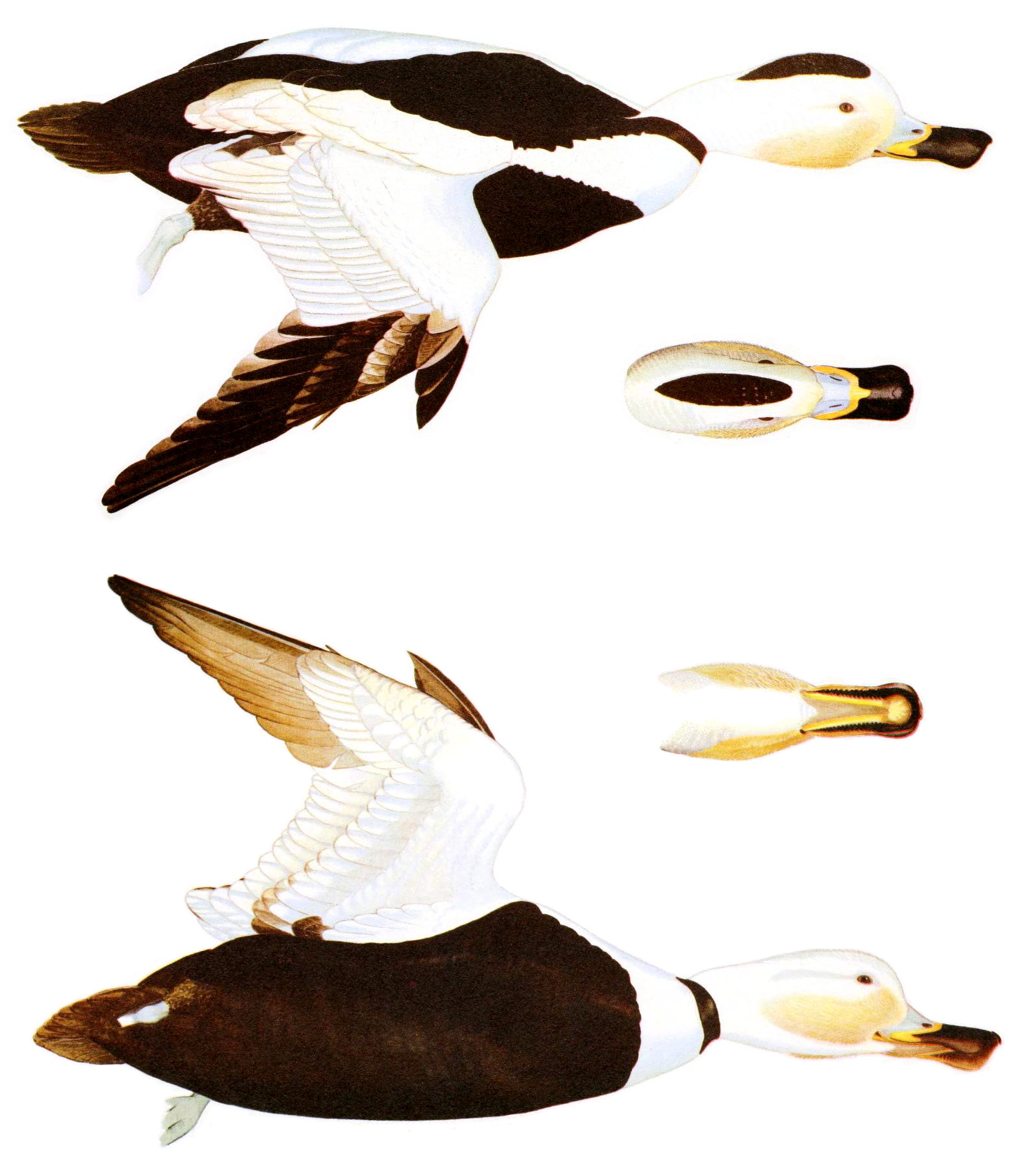 Labrador Duck, Camptorynchus labradorius, male, chromolithograph (?).